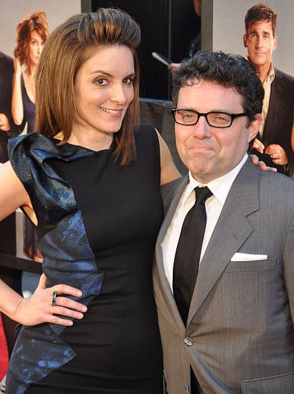 Actress Tina Fey and husband Jeff Richmond attend the premiere of Date Night on April 6, 2010 at the Ziegfeld Theater (cinema) in New York City.